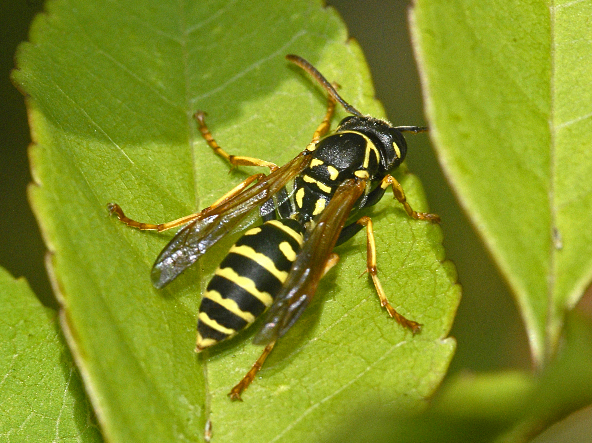 Polistes nimpha. Vi Superiore, Genova, Italy